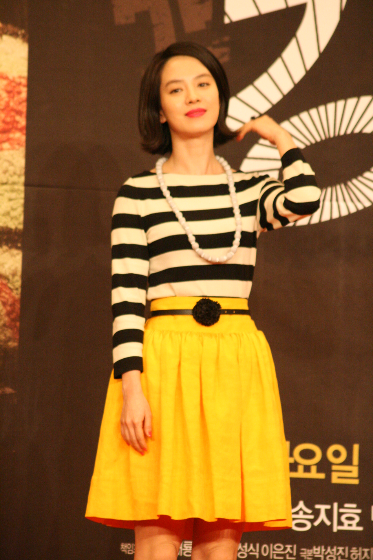 Song Ji Hyo in March 2011